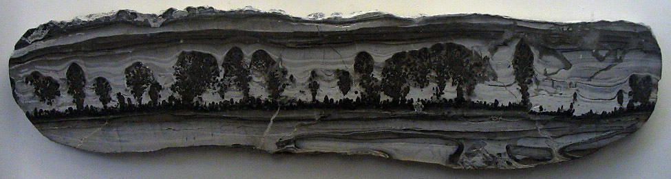 "Landscape marble", a stromatolitic limestone, showing naturally formed patterns in the marble resembling hedges and trees. Photograph taken at the Natural History Museum, London.